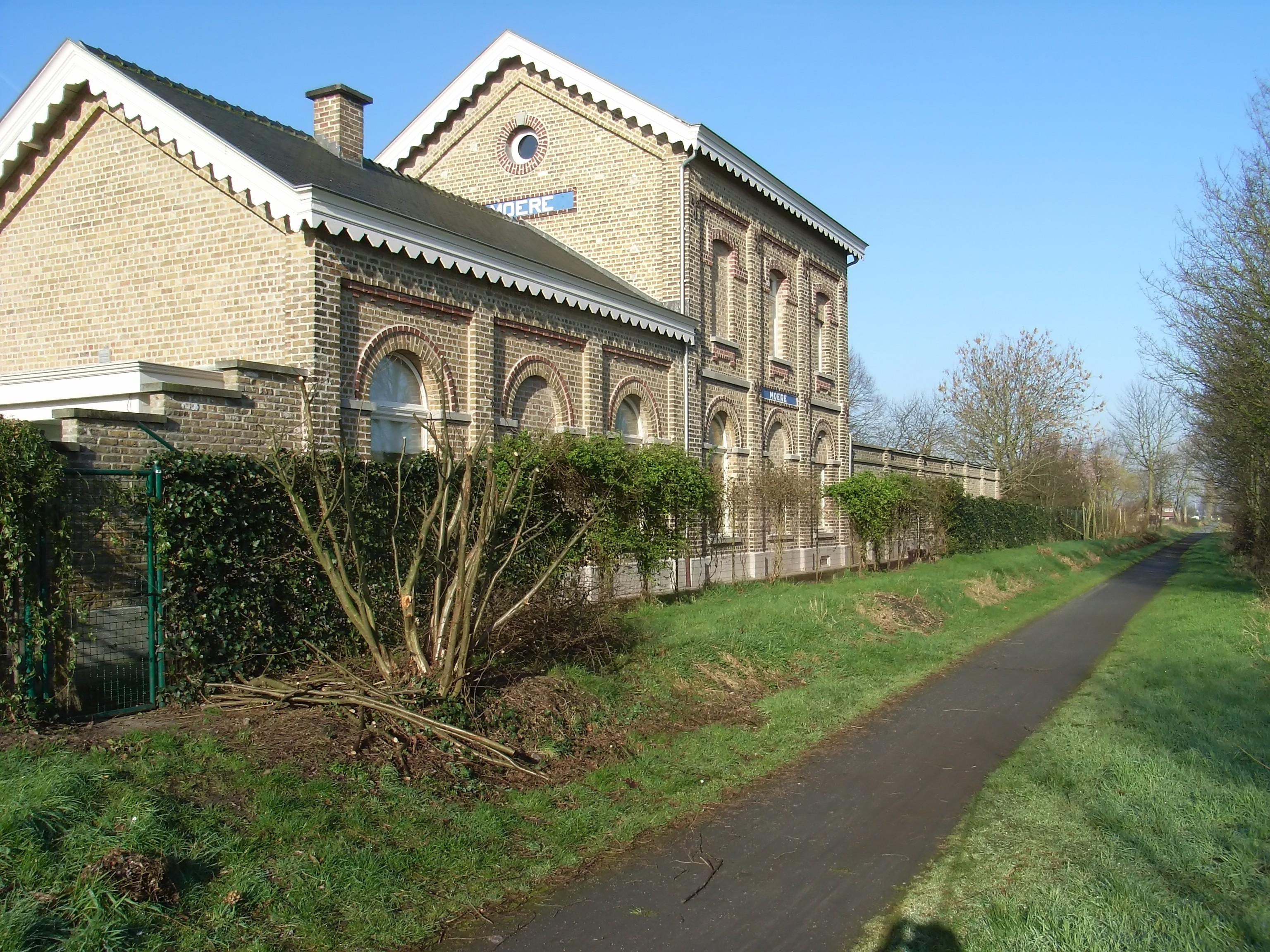 The former Moere railway station on the Groene 62 (Green 62) cycleway in Gistel, Belgium